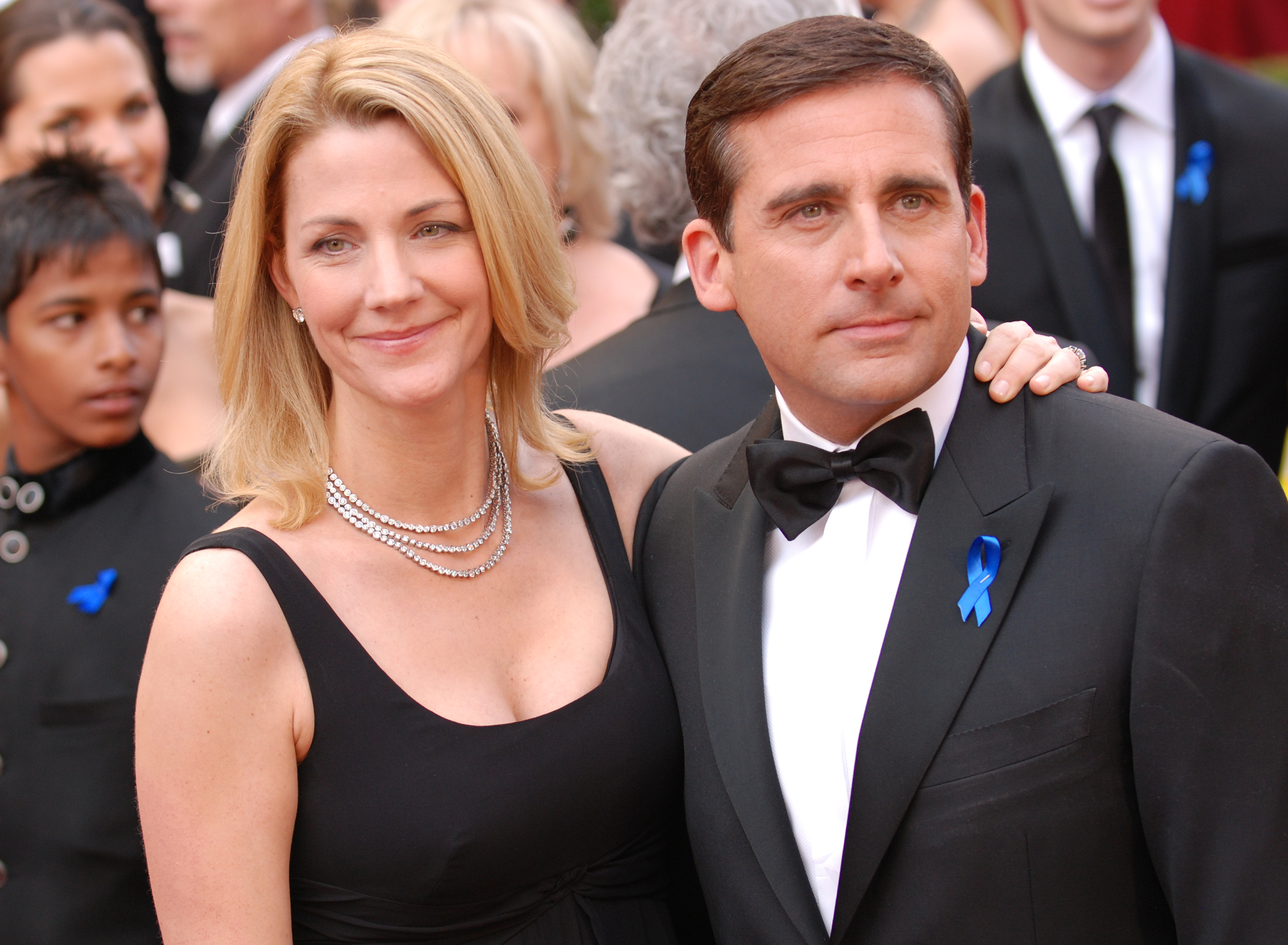 Steve Carell, with wife Nancy, pauses for a moment to take in the grandeur of the 82nd Academy Awards, March 7, in Hollywood, Calif.